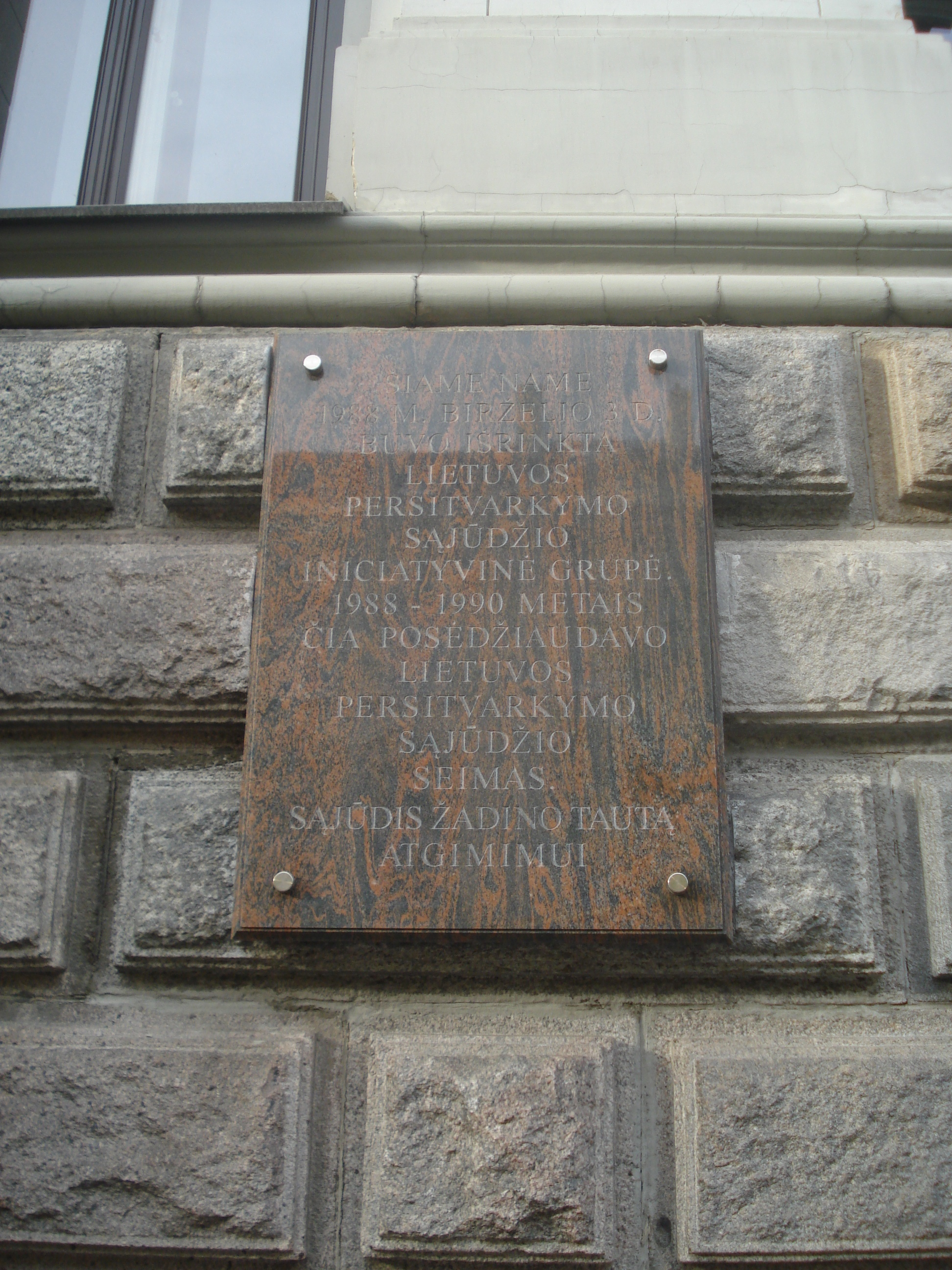 Memorial plaque at the Academy of science in Vilnius (Gedimino avenue): Sajudis' Seimas